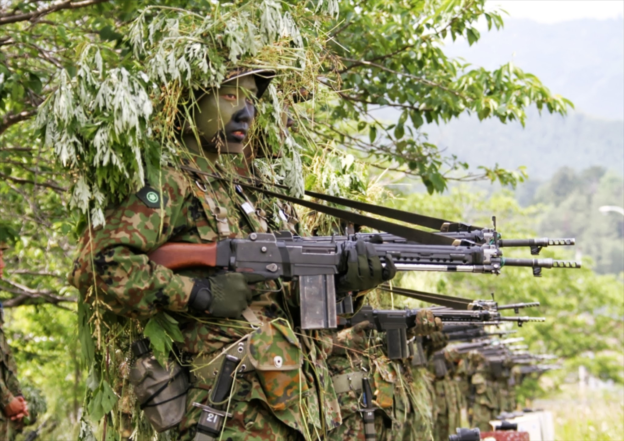 Title 25.05.27 １７ｉ・訓練様子 歩哨練度判定.jpg Album 装備 ６４式７．６２ｍｍ小銃（自衛官候補生歩哨訓練・第１７普通科連隊）